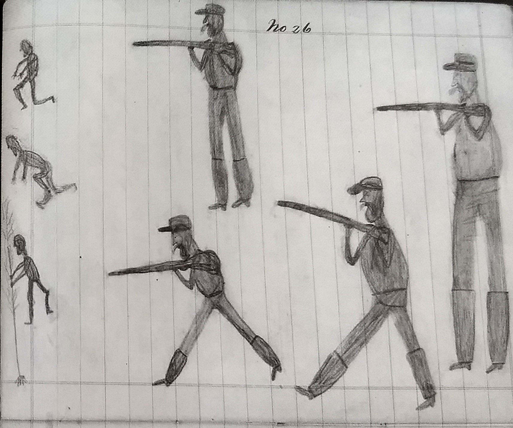 Drawing by Aboriginal boy Oscar of Native Police operation circa 1897 near Camooweal